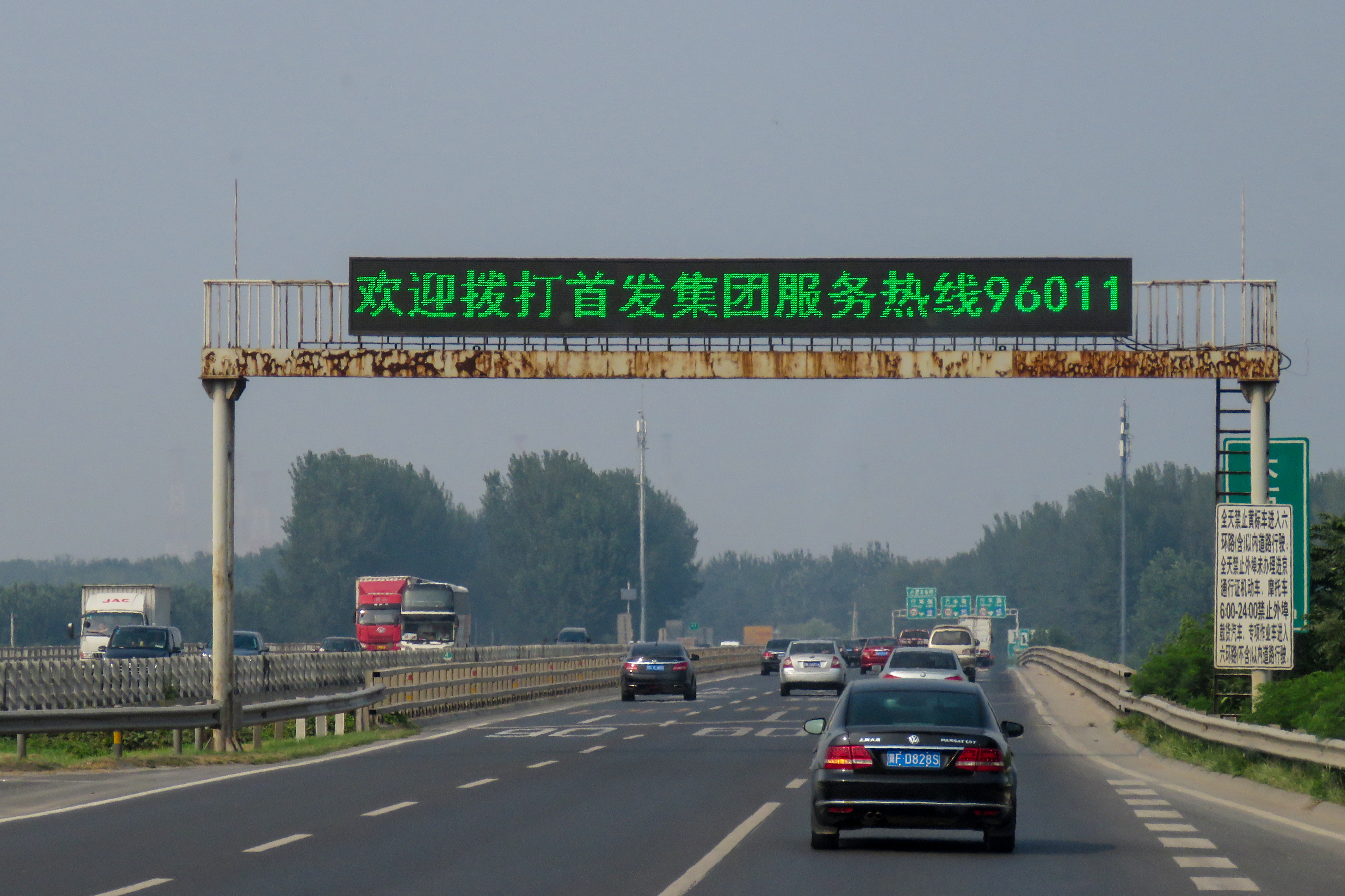 838 enters G4 at Liulihe.